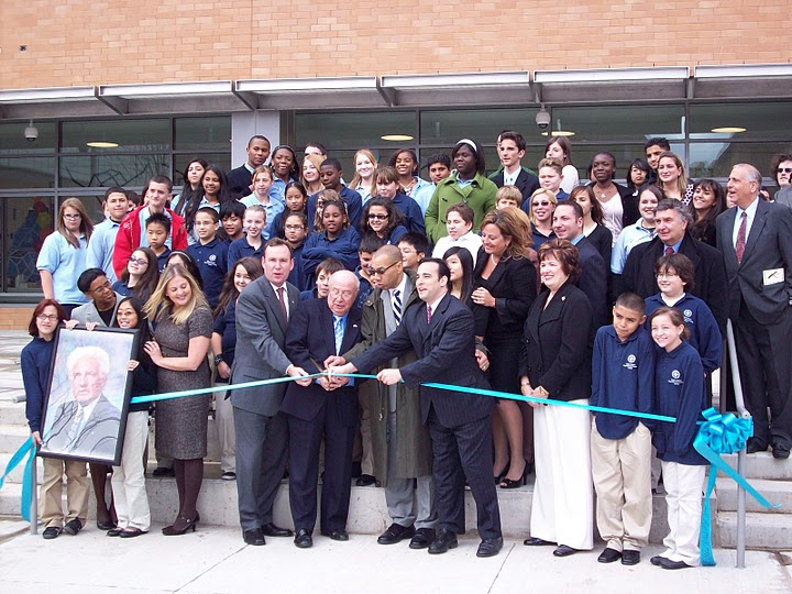 This photo is an image of the school building opening ceremony for College of Staten Island High School for International Studies.